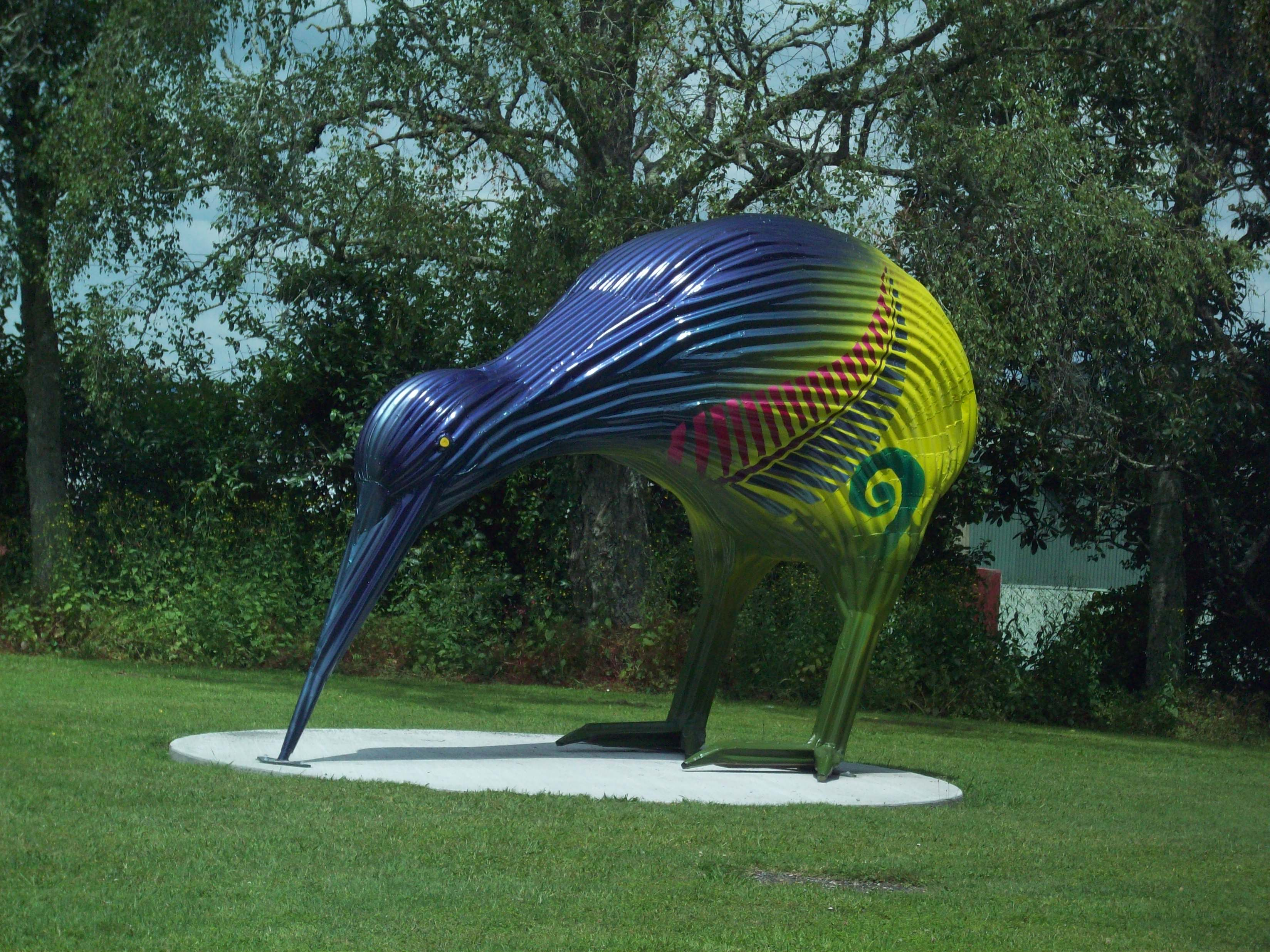 A kiwi reproduction in Otorohanga, New Zealand